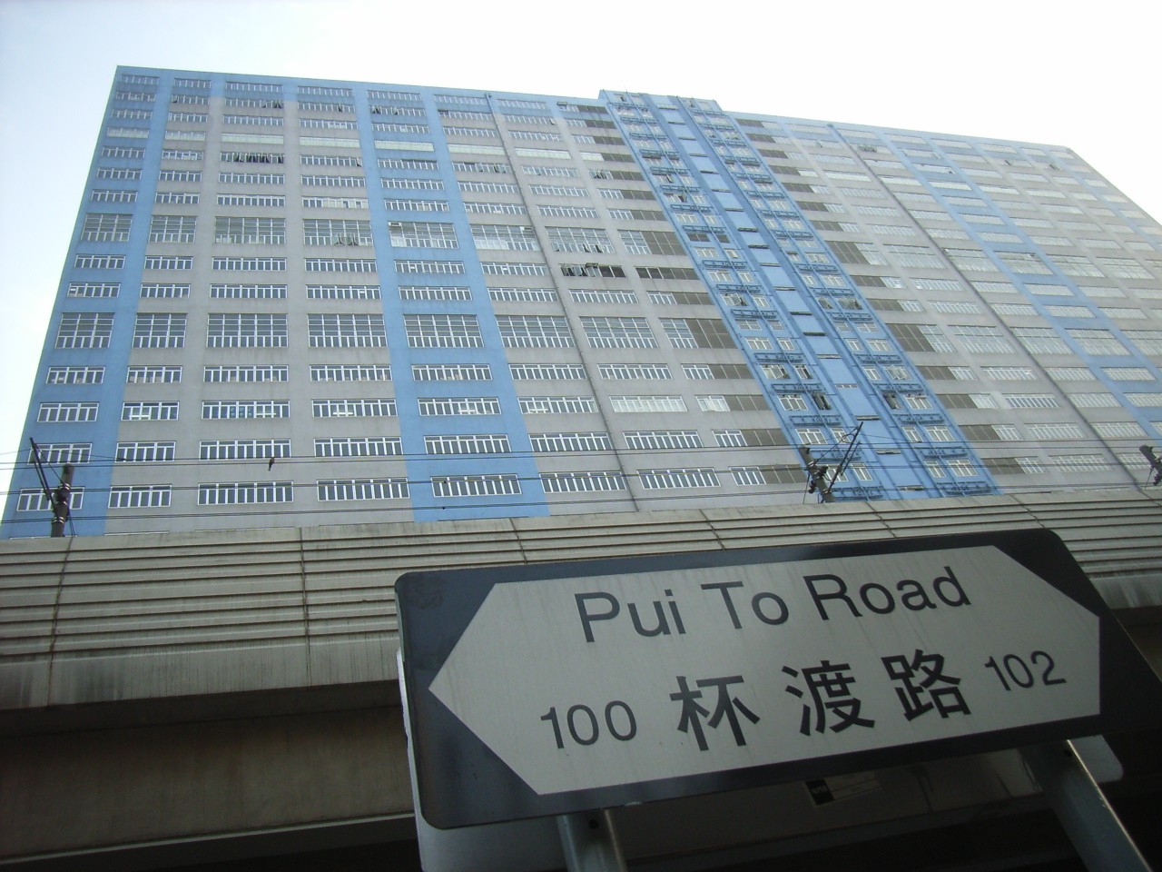 杯渡路, Pui To Road, Tuen Mun, New Territories, Hong Kong. (Photo created by User:TUmuMATo)。